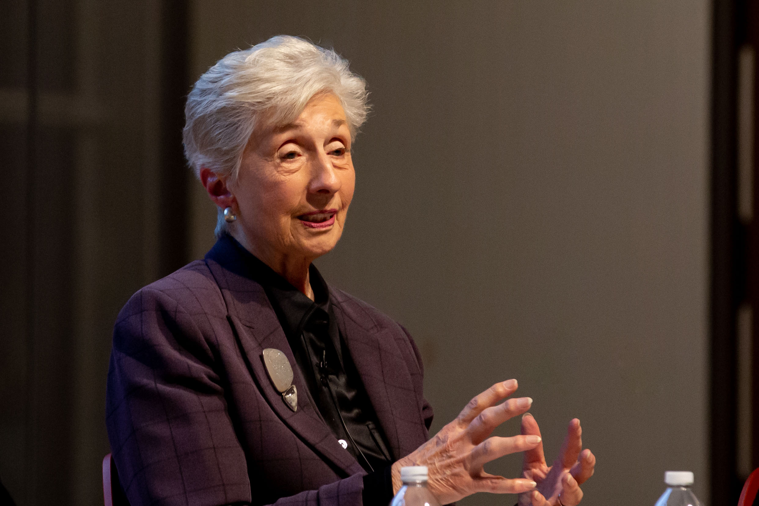 Civil Disagreements: Immigration with Doris Meissner and Reihan Salam